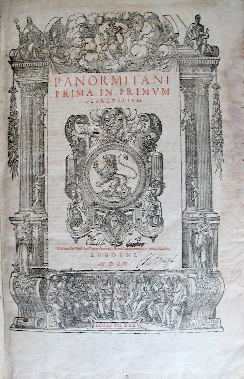 First page of an edition of Panormitani's Decretales